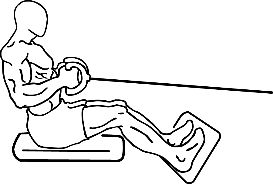 an exercise of upper back